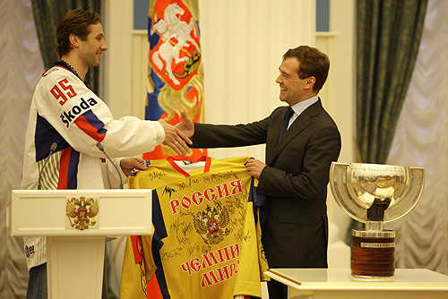 THE KREMLIN, MOSCOW. At a meeting with the Russian ice hockey team. With team captain Alexei Morozov.